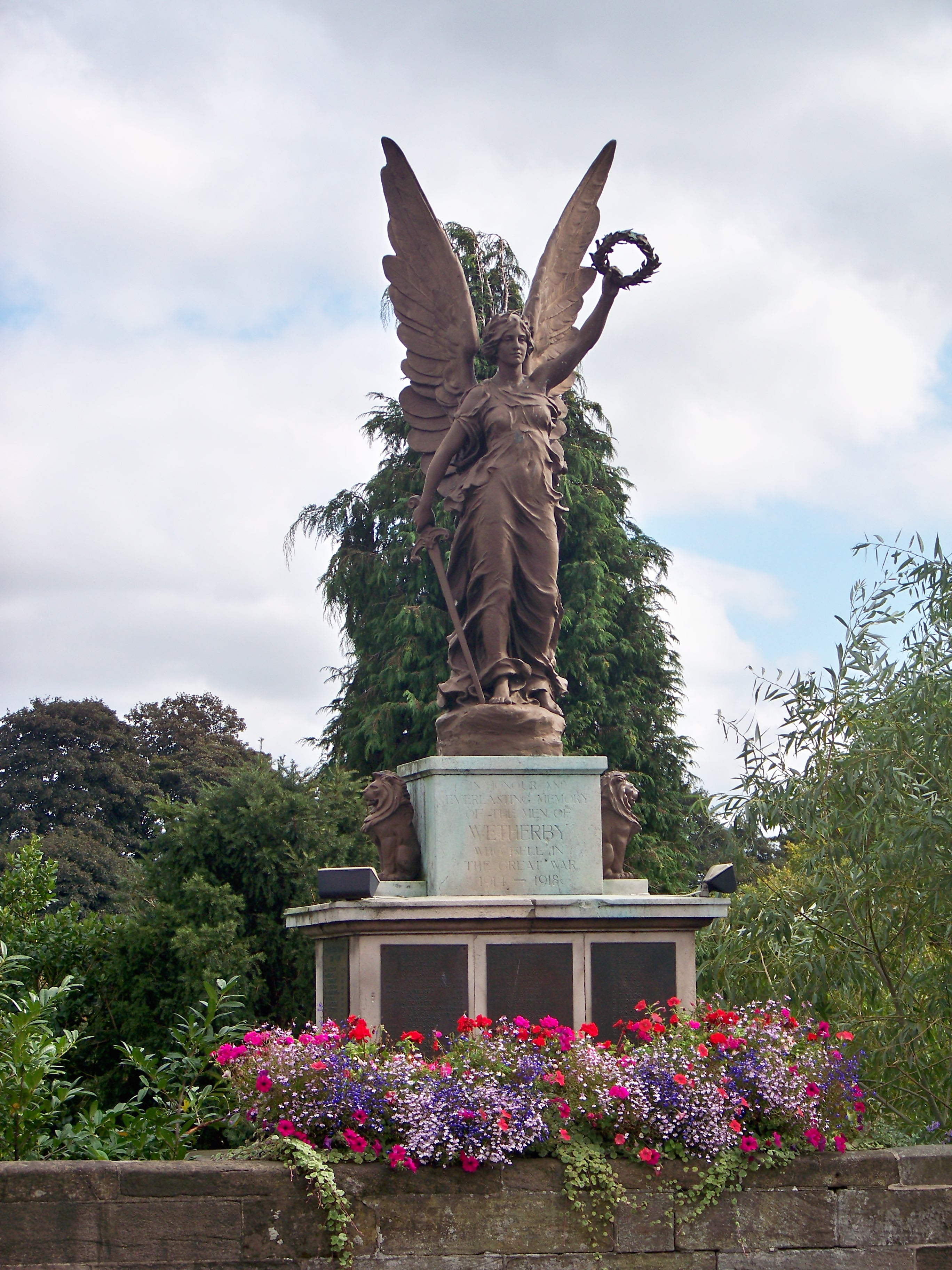 A memorial to the Great War of 1914 to 1918 in Wetherby, West Yorkshire. Taken midday on Monday 14th September 2009.